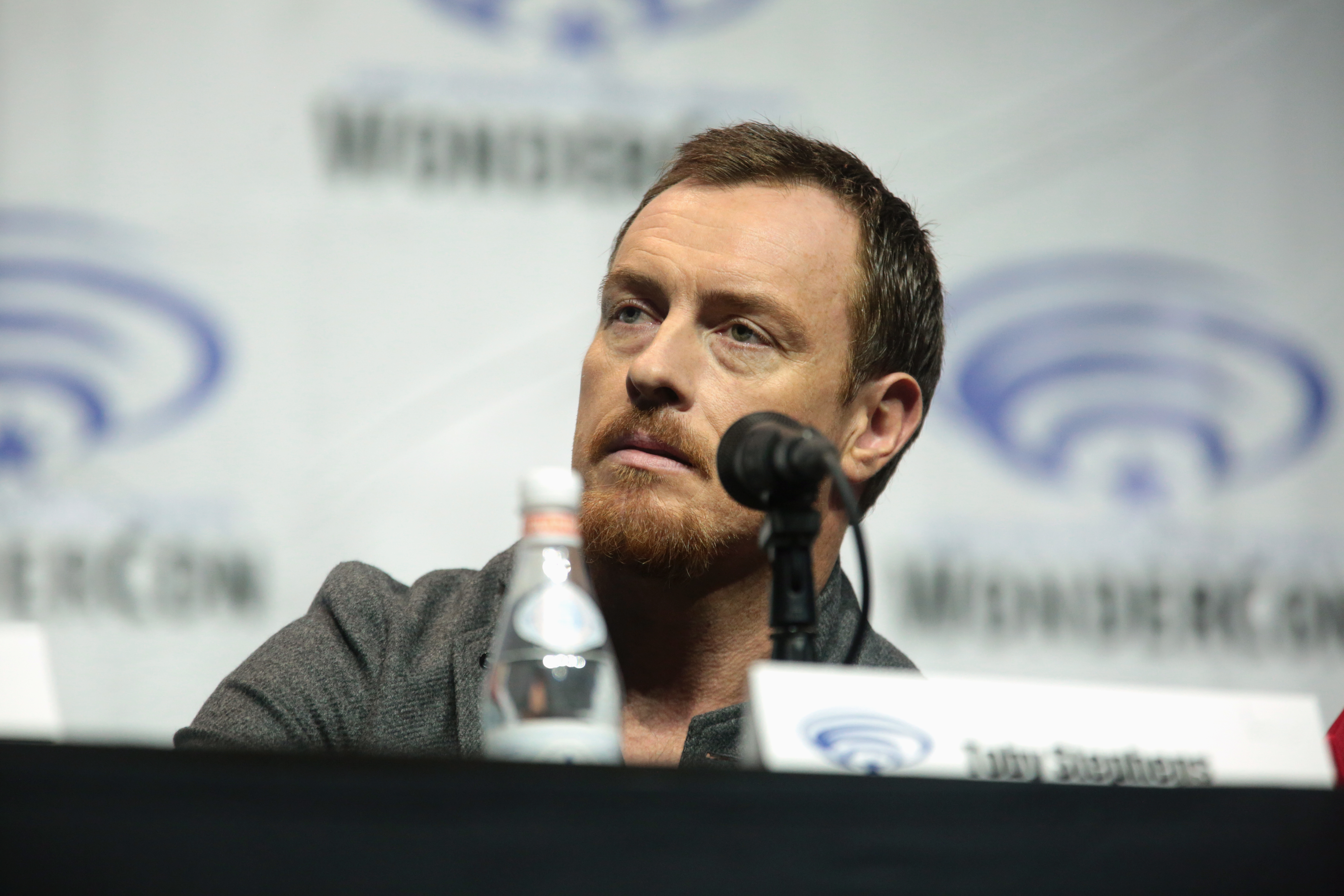 Toby Stephens speaking at the 2018 WonderCon, for "Netflix's Lost in Space", at the Anaheim Convention Center in Anaheim, California.